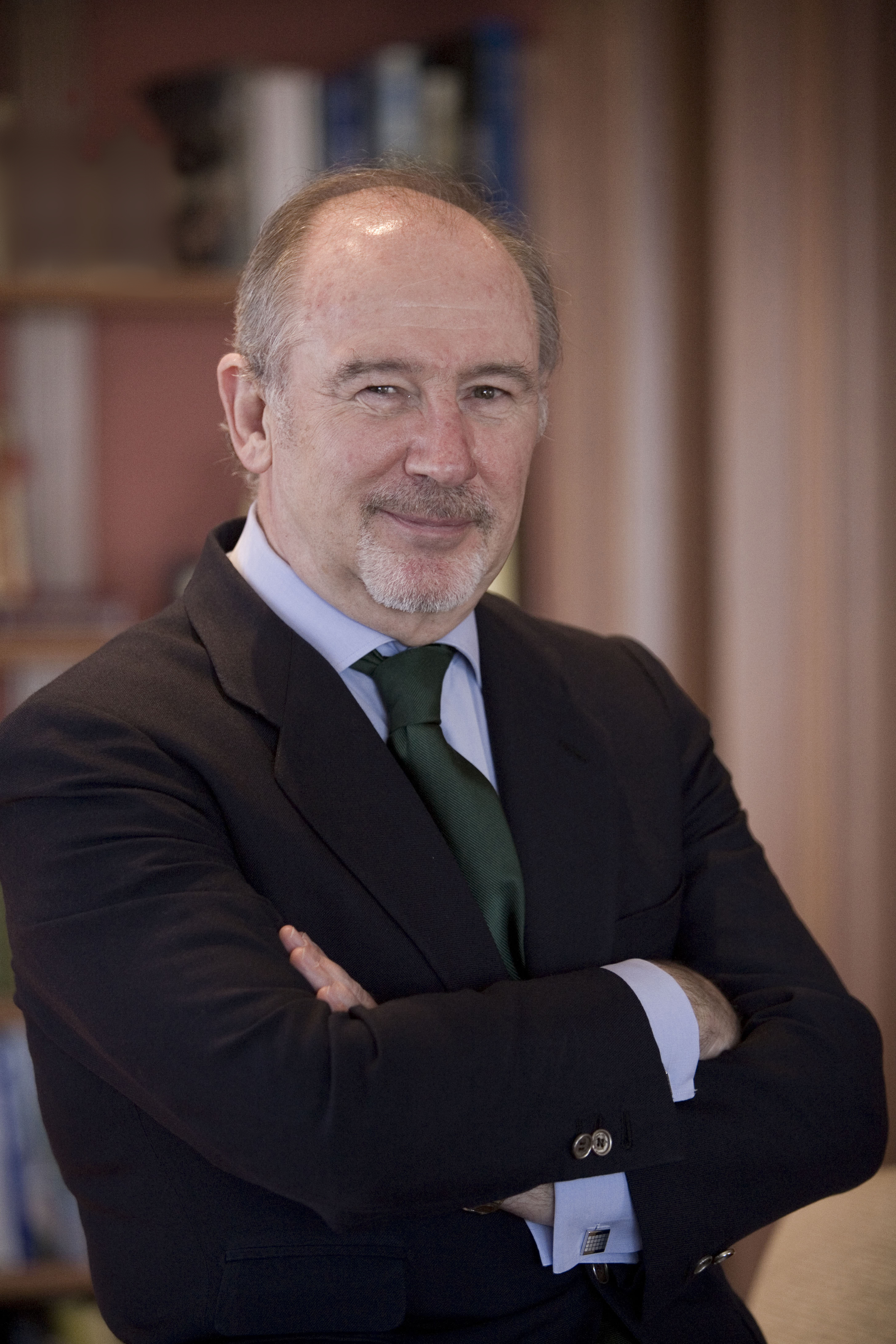 Official portrait of Bankia President Rodrigo de Rato y Figaredo